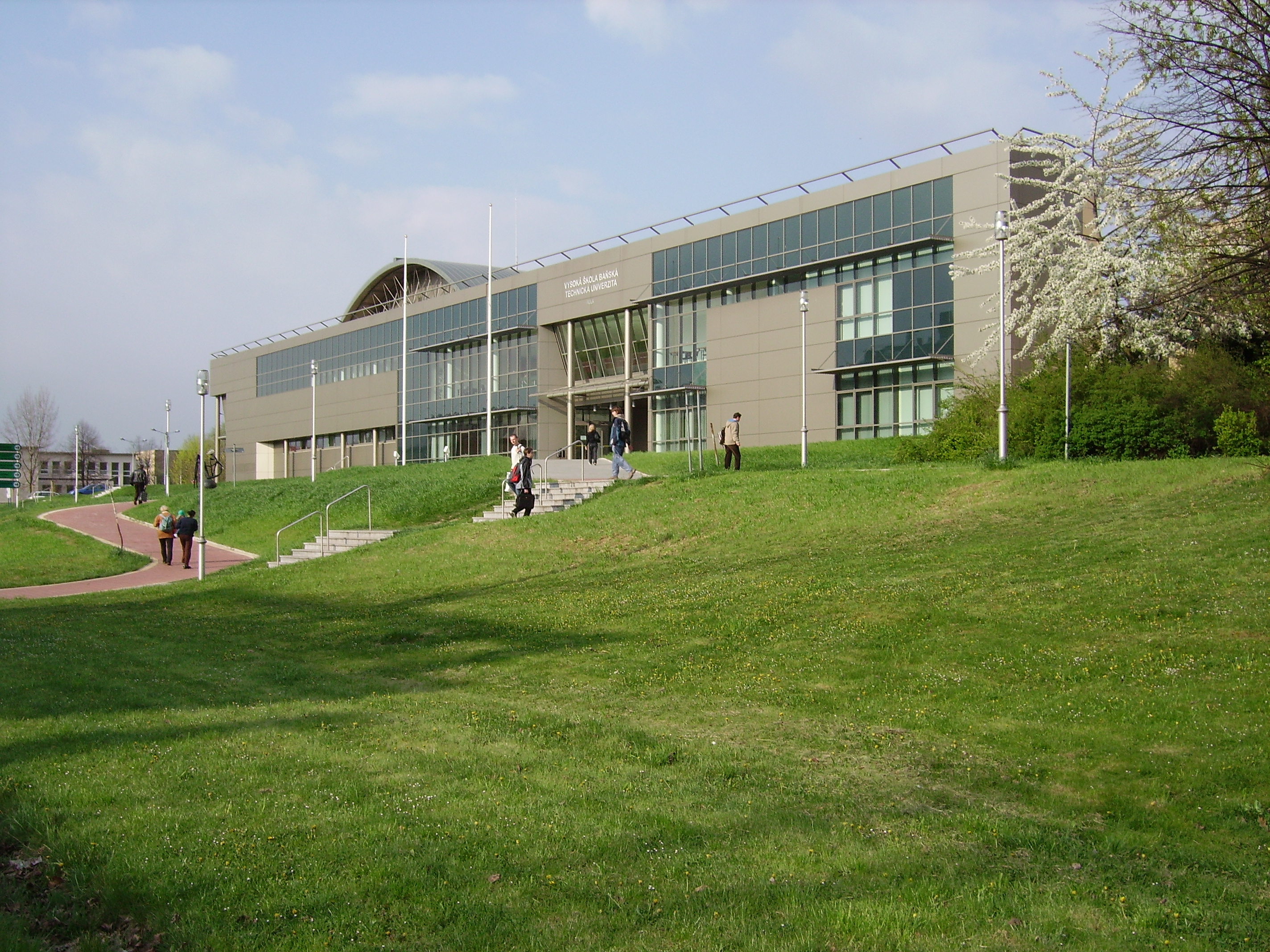 Technical University of Ostrava